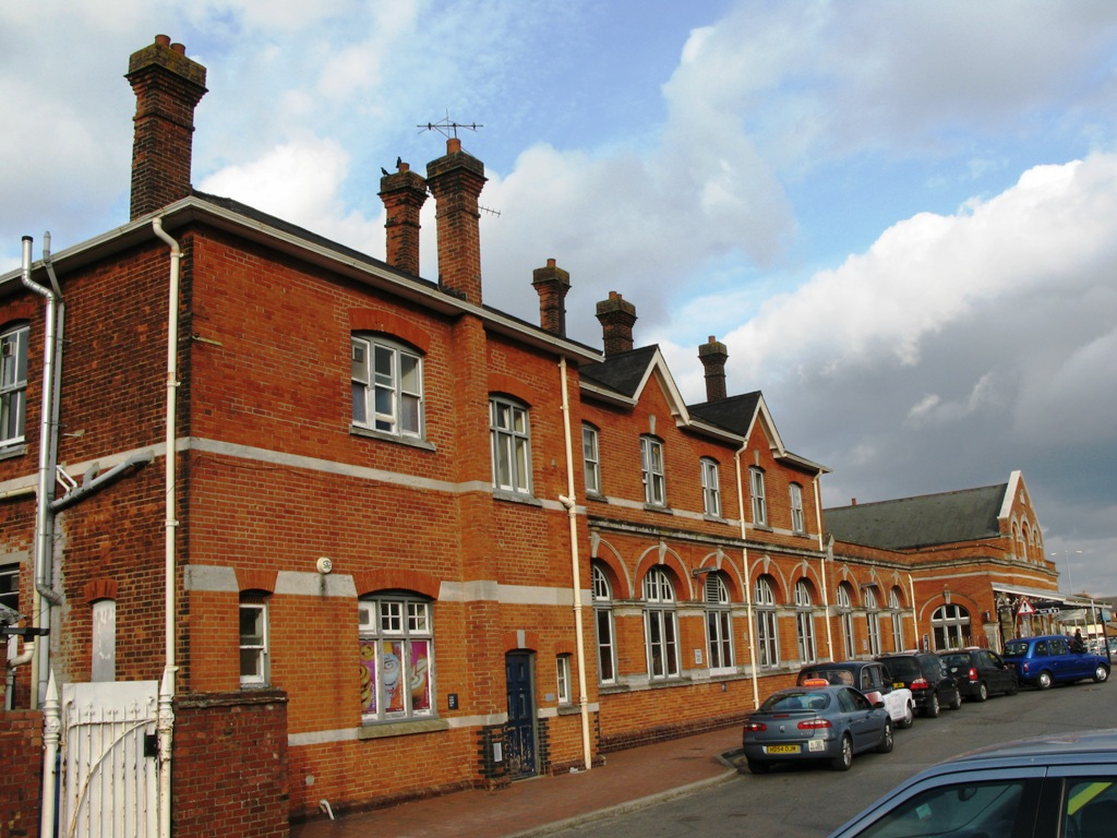 The London and South Western Railway station at Salisbury, Wiltshire, England. This building was opened in 1902 to replace the original block of 1859.